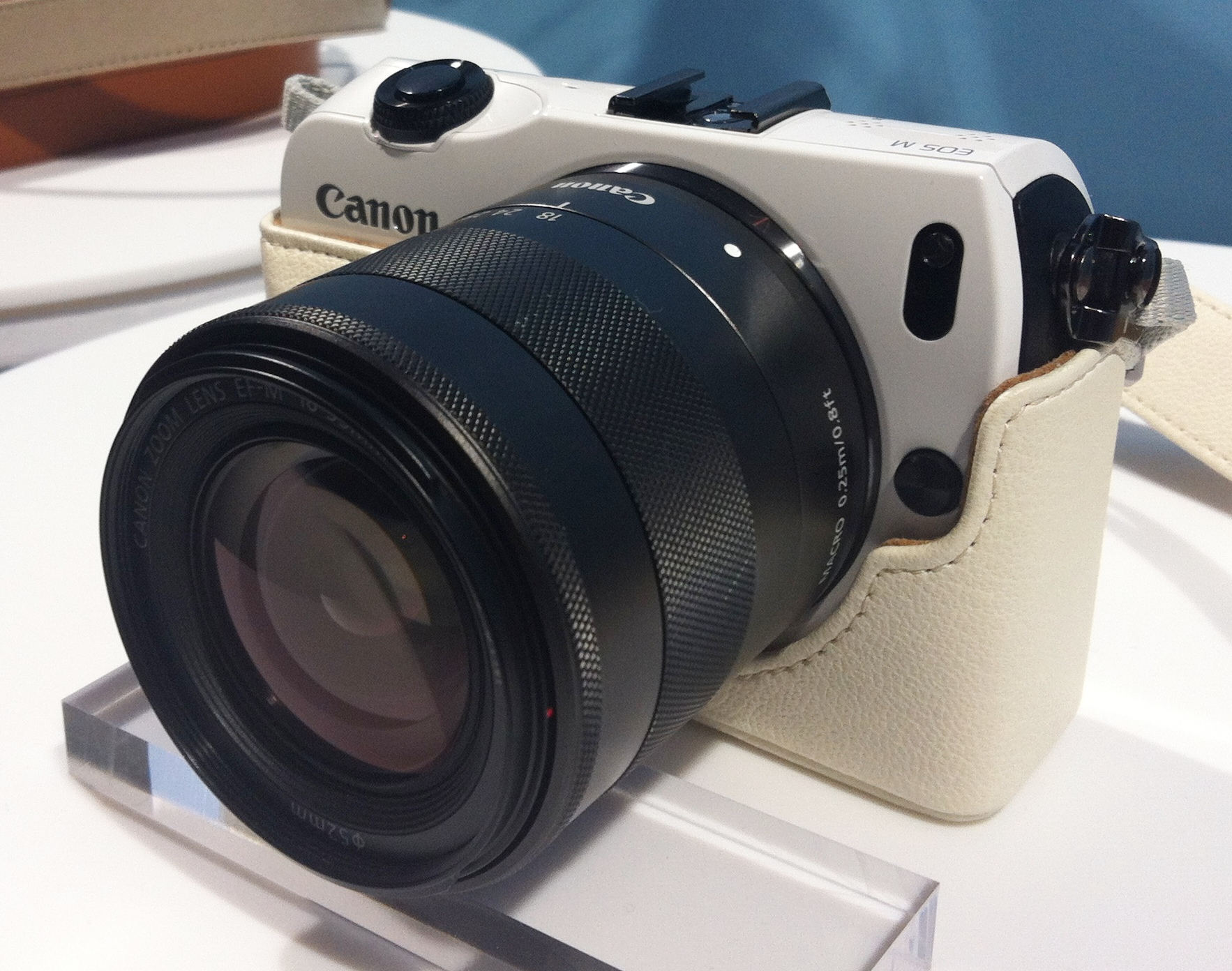 Canon EOS M from Canon's blogger event